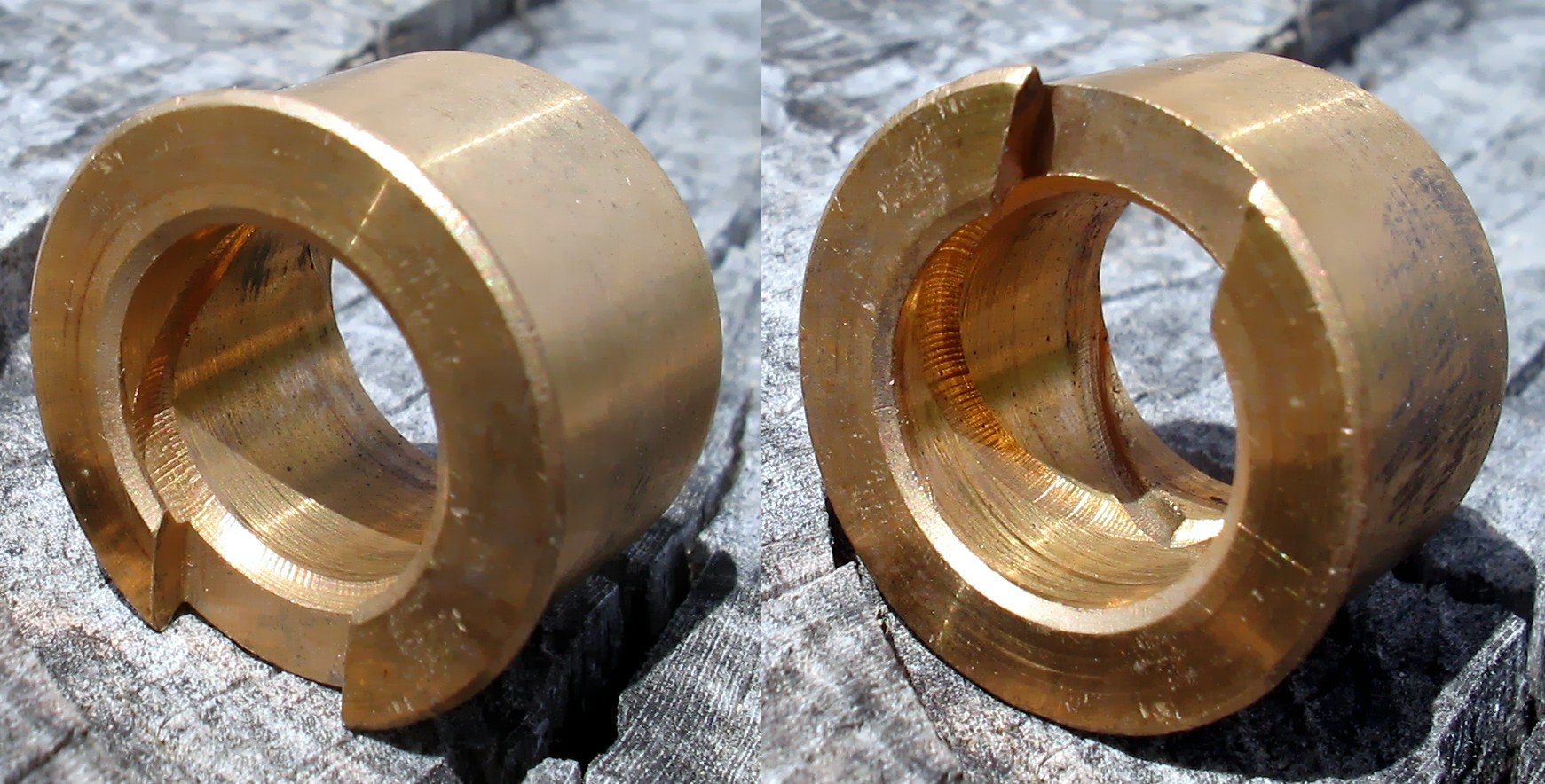 Bush secondary shaft gear for Minarelli AM345 , You Can Notice The Two Spirals , designed to draw oil from one side of a second of the direction of rotation of the Tree .